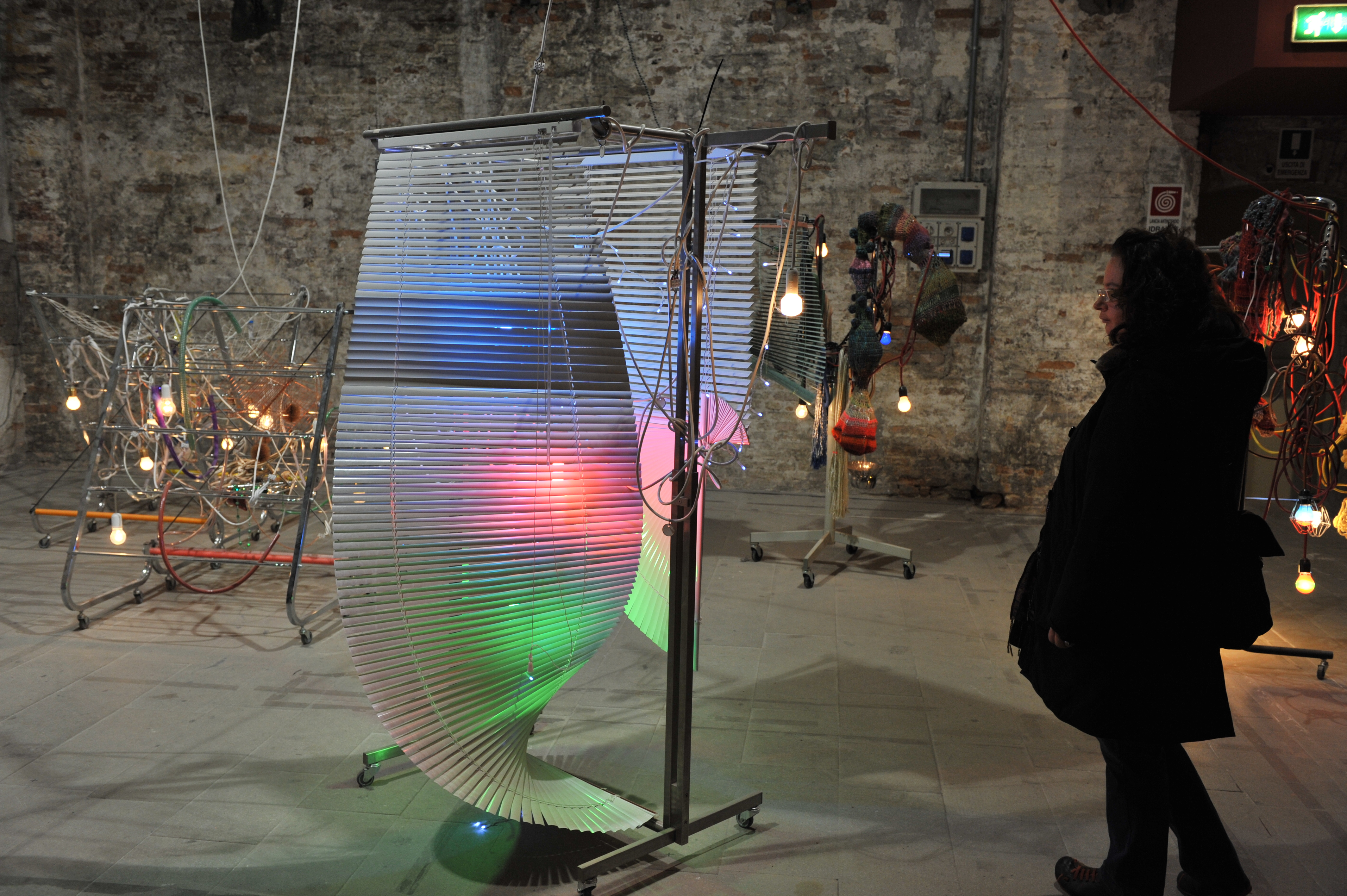 Vulnerable Arrangements, a work by Hague Yang at the Venice Biennale